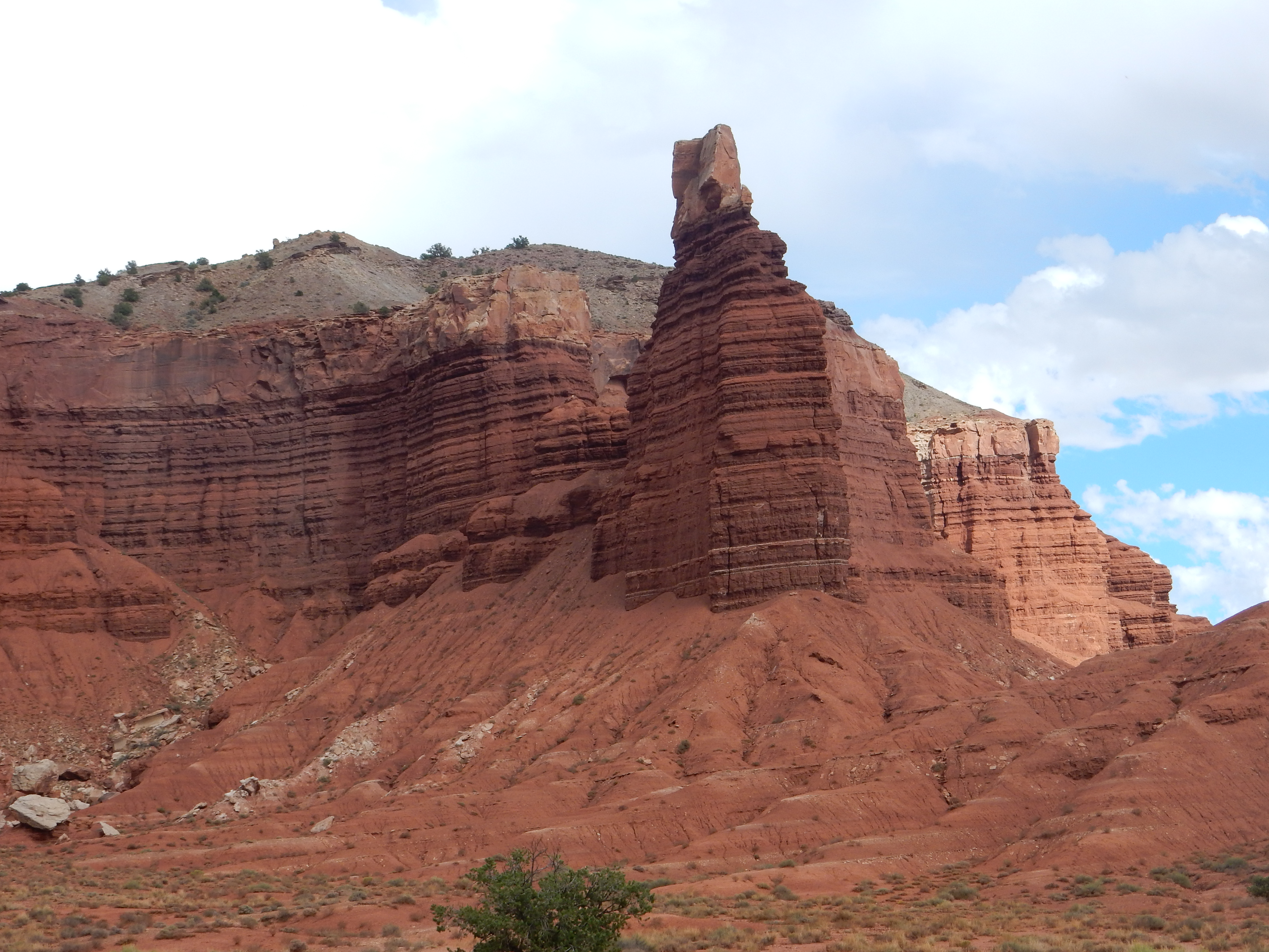 This image shows Chimney Rock, a feature eroded out of the Moenkopi Formation and Shinarump Conglomerate at Capitol Reef National Park, Utah,USA. The thin reddish-brown beds are Moenkopi Formation while the caprock is Shinarump Conglomerate.